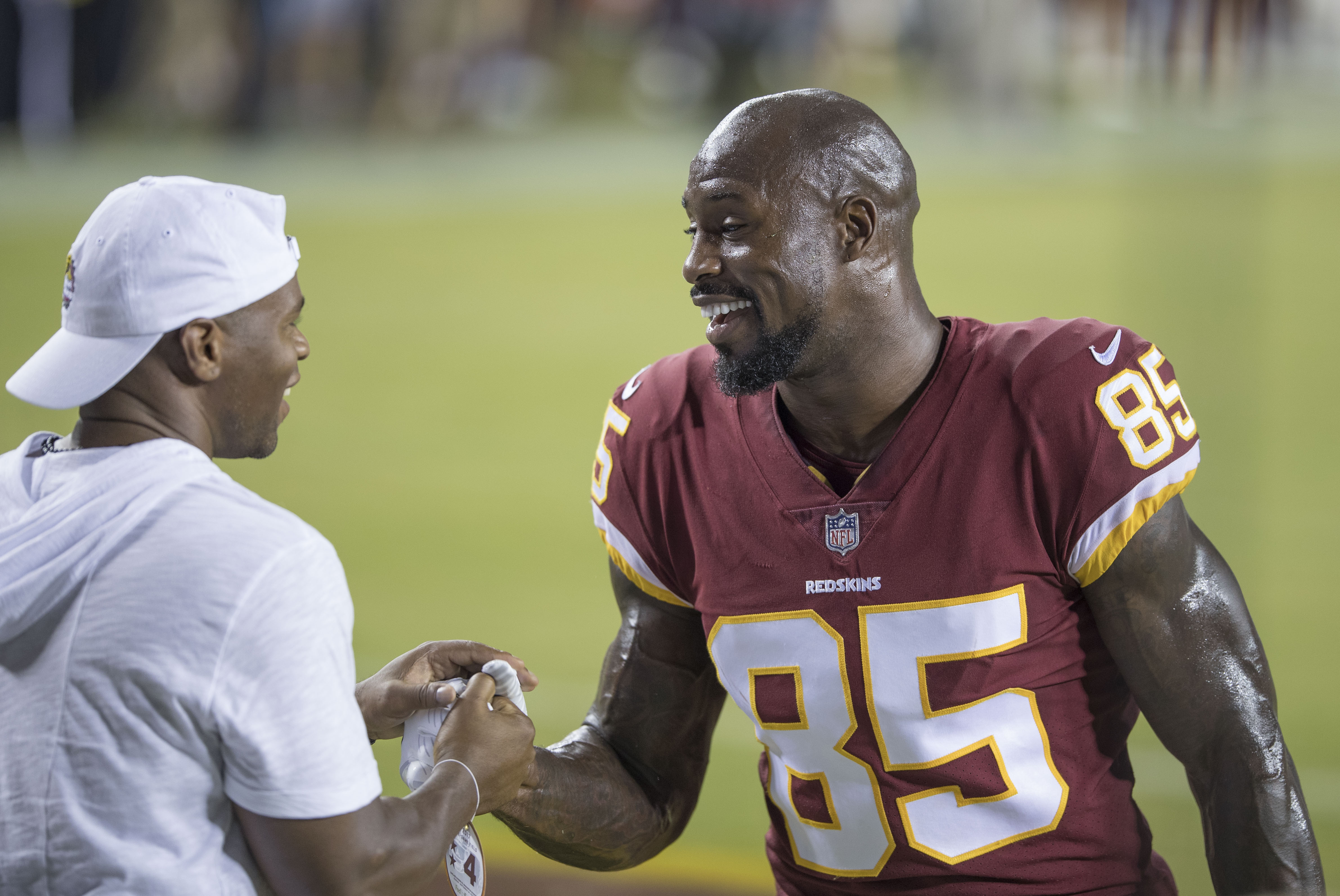 Vernon Davis in a game against the Oakland Raiders